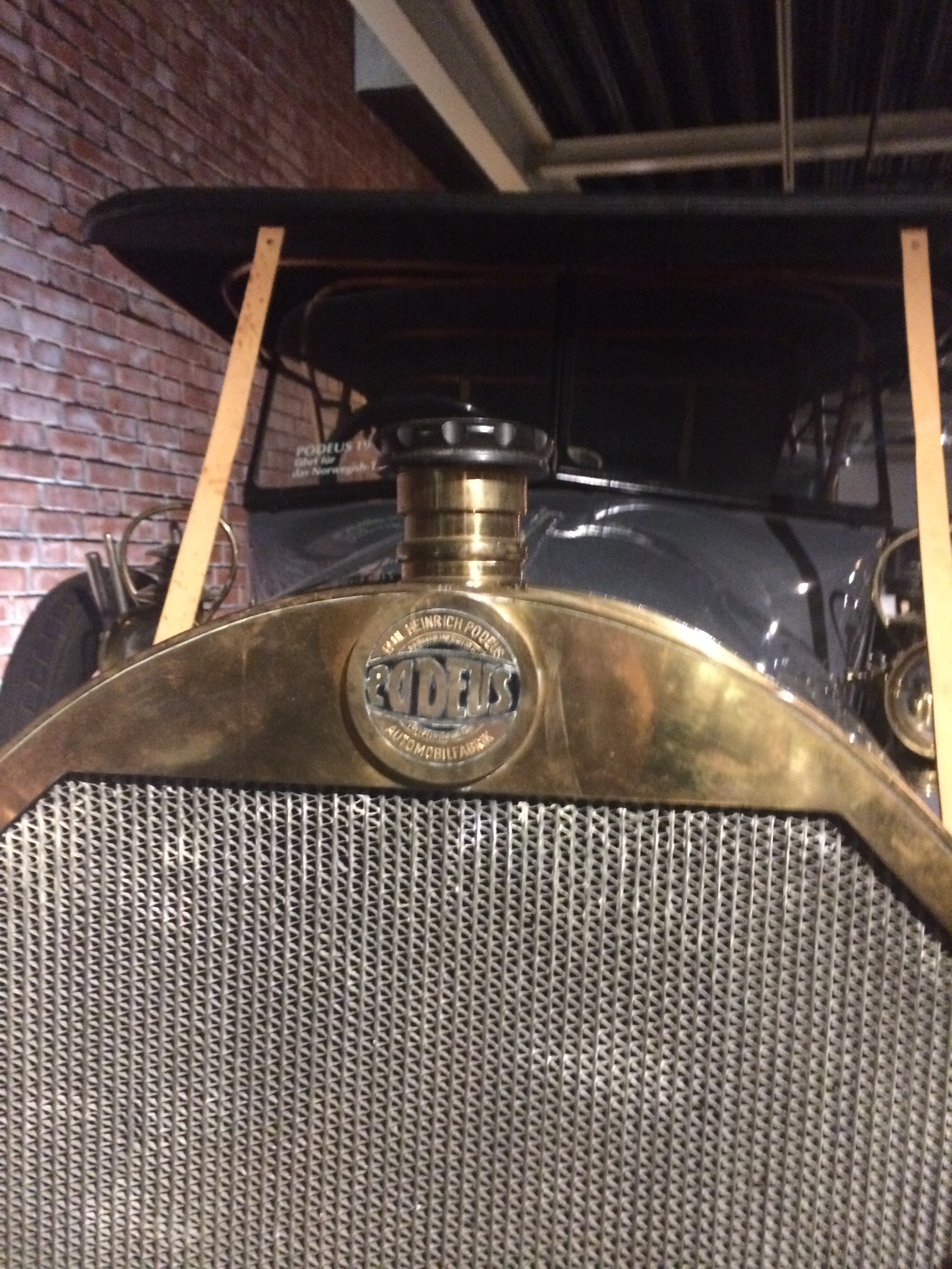 Podeus car from 1912, used as a taxi in Oslo from 1919. The Podeus factory in Wismar (Germany) was not very successful with personal cars, but produced a substantial number of trucks / lorreys.